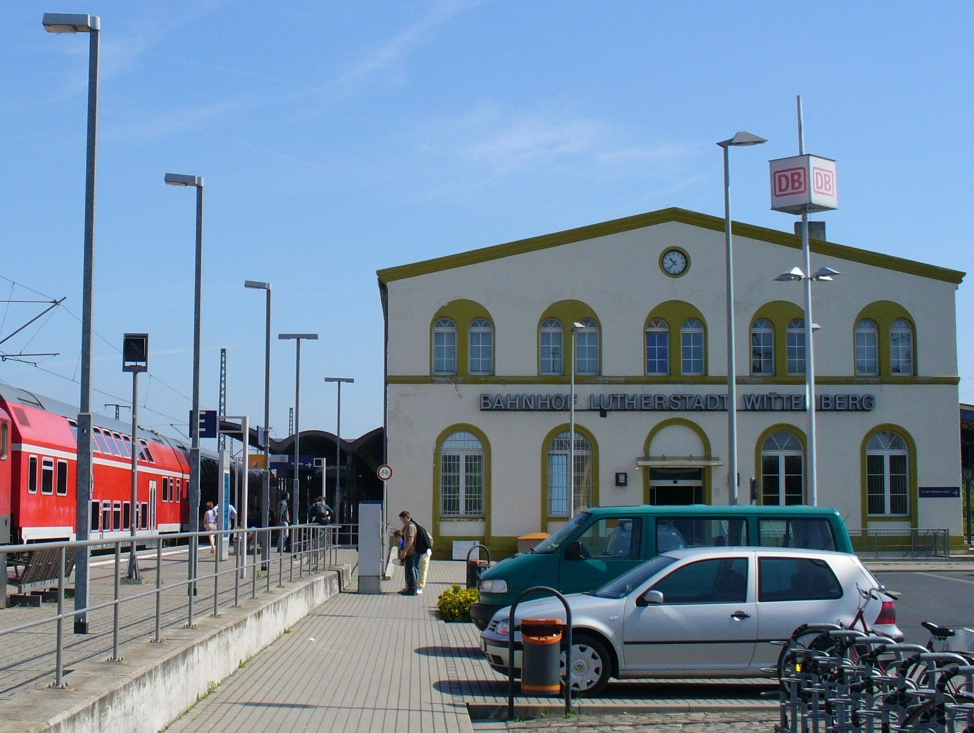 Train station Wittenberg